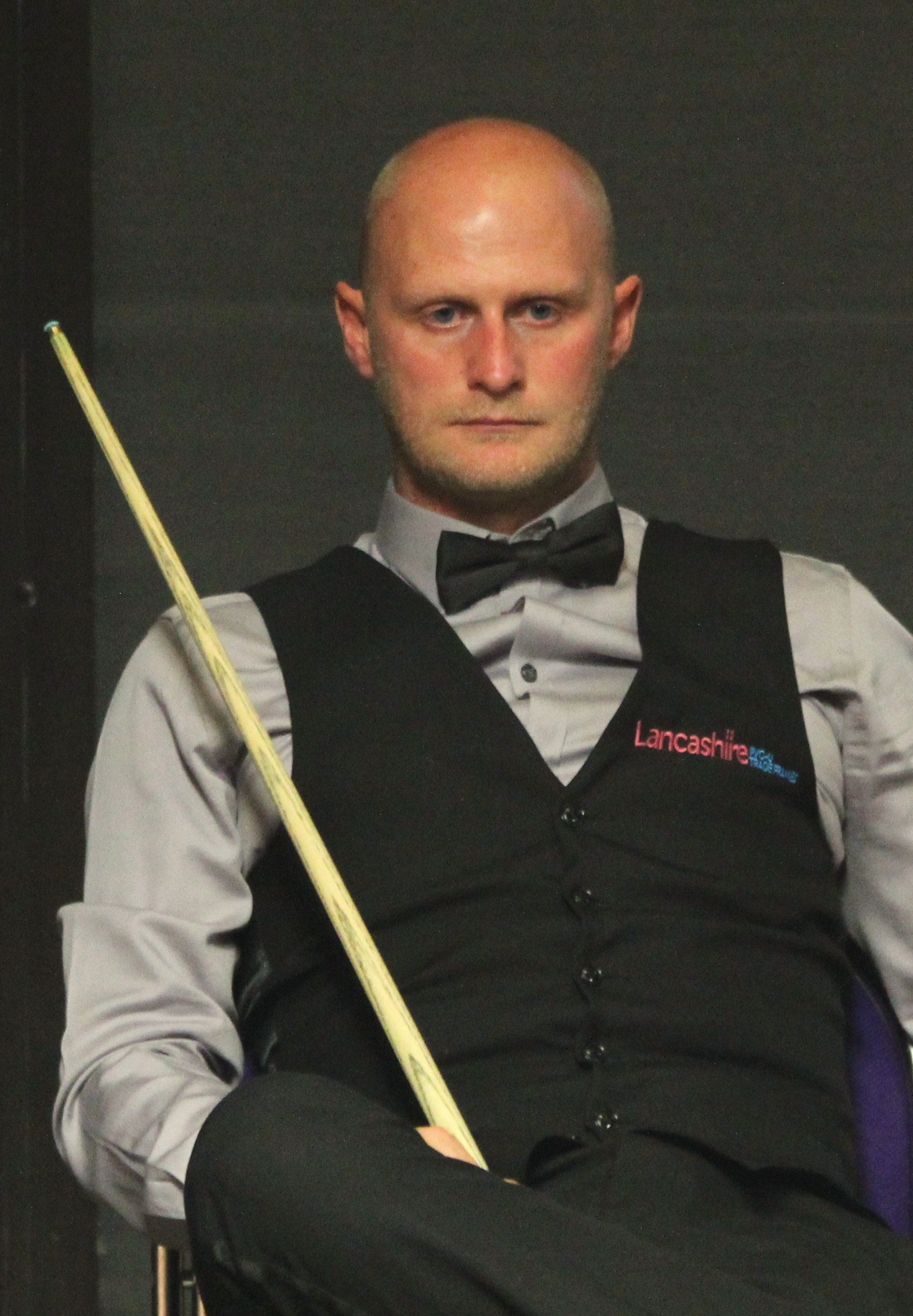 Craig Steadman beim Paul Hunter Classic 2016